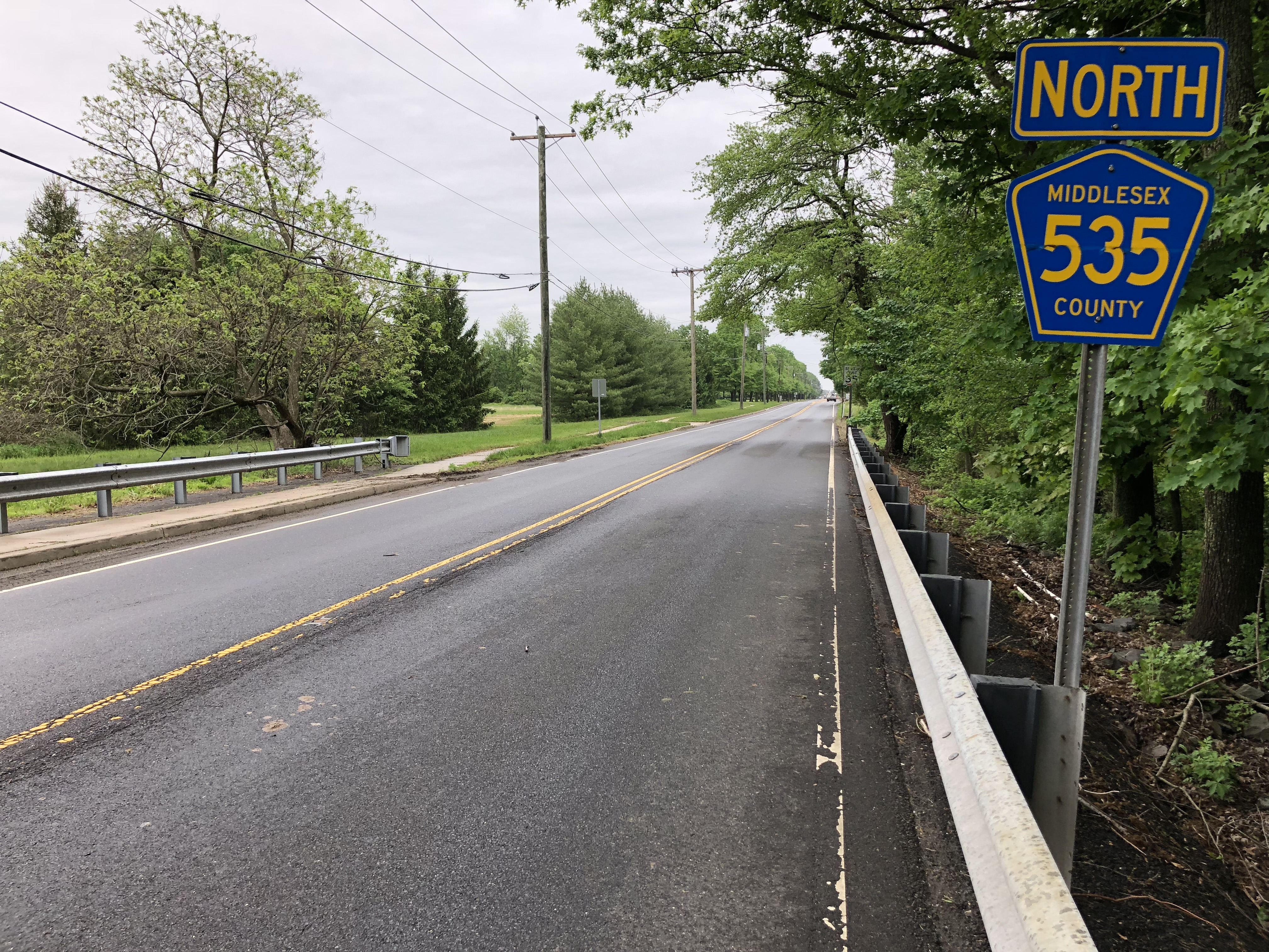 View north along Middlesex County Route 535 (Old Trenton Road) at Ancil Davidson Road in Cranbury Township, Middlesex County, New Jersey